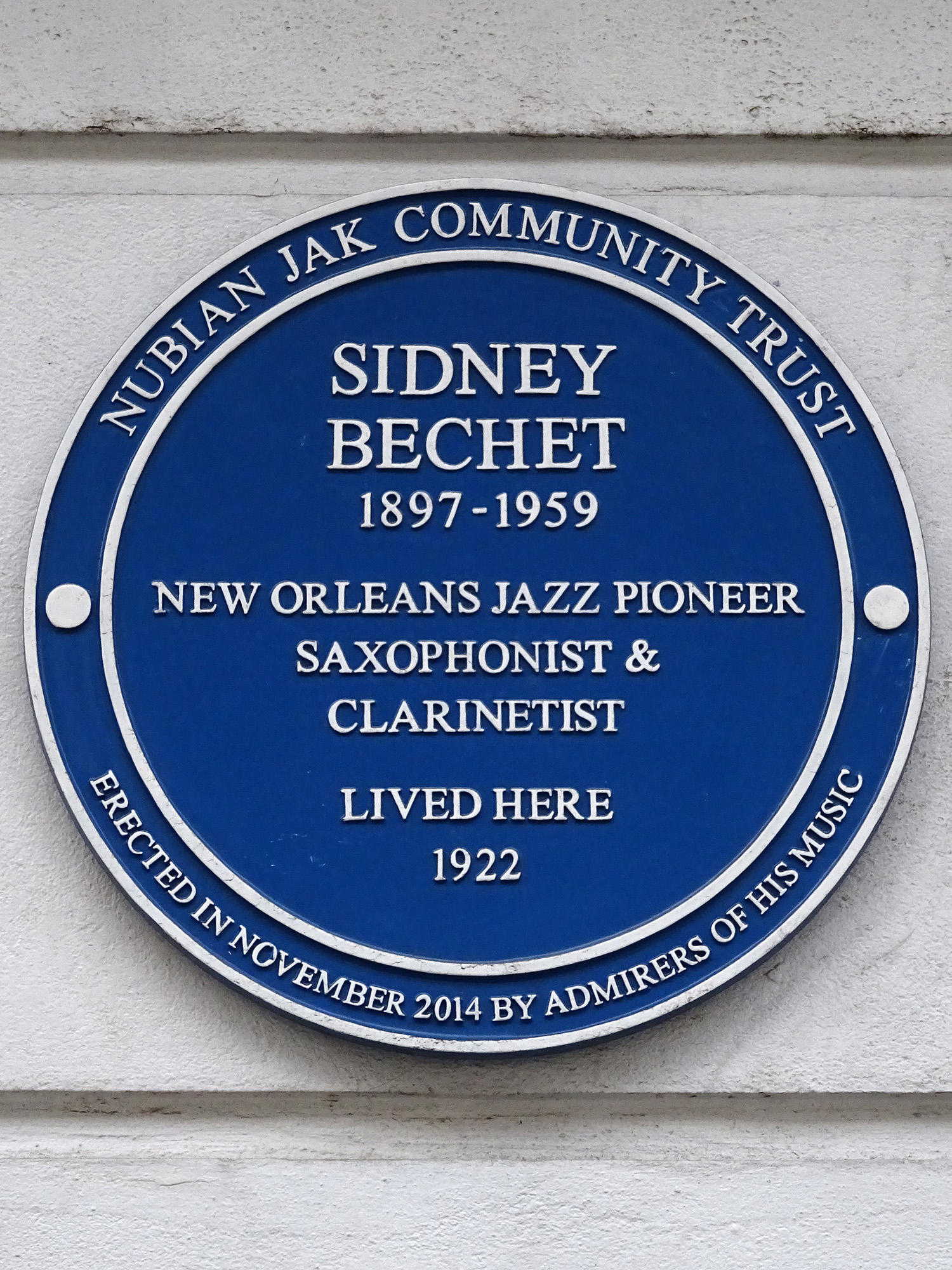 Blue plaque erected 25th November 2014 by The Nubian Jak Community Trust at 27 Conway Street Fitzrovia, London, W1T 6BW